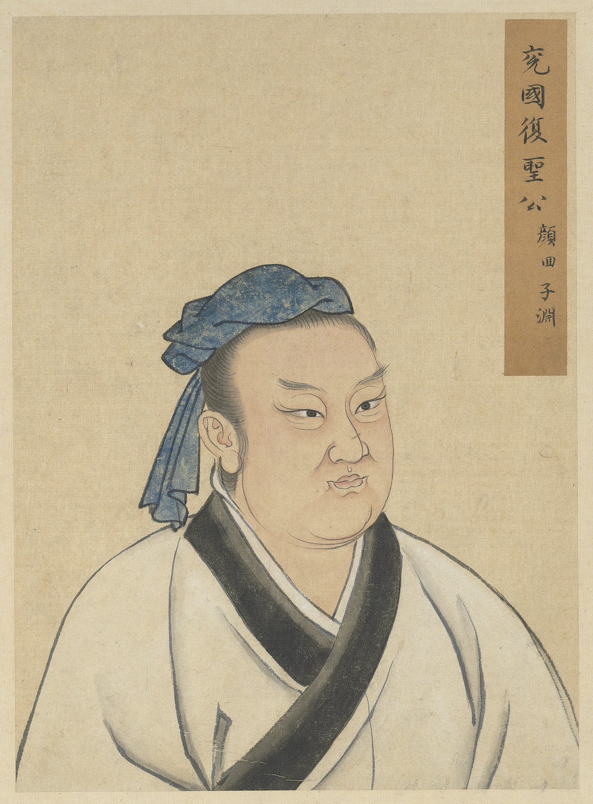 This depicts Yan Hui (顏回), styled Ziyuan (子淵), also known as Yan Yuan (顏淵).